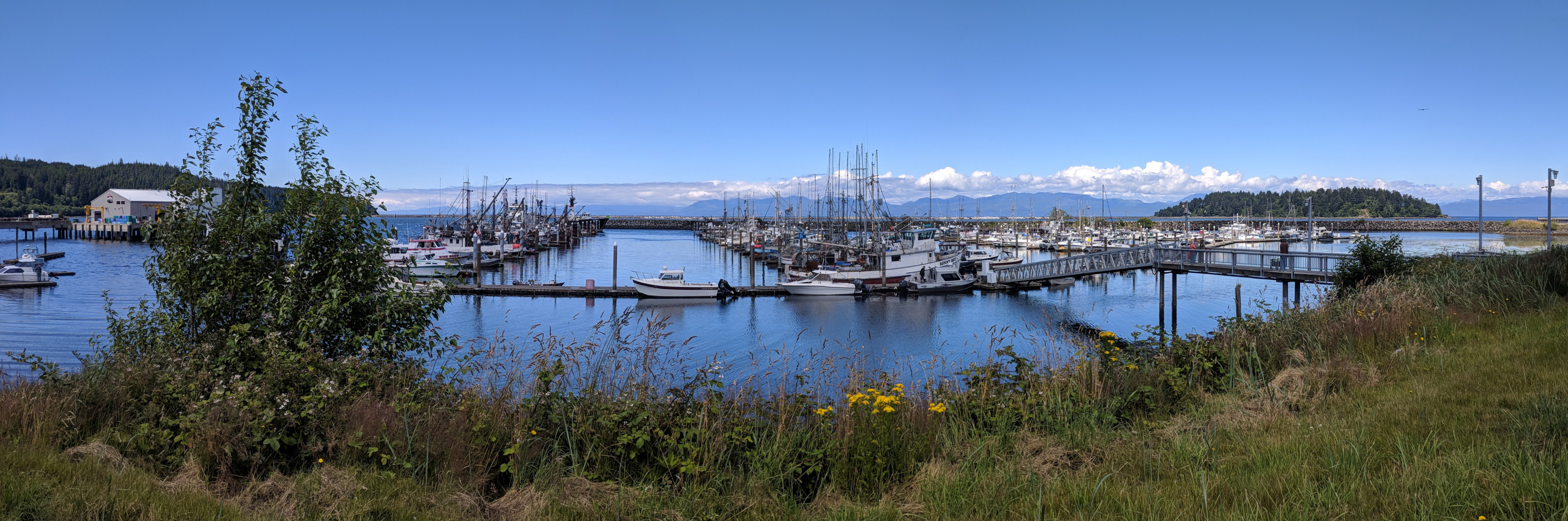 Panoramic view of the Makah Marina at Neah Bay, Washington, in the Makah Reservation